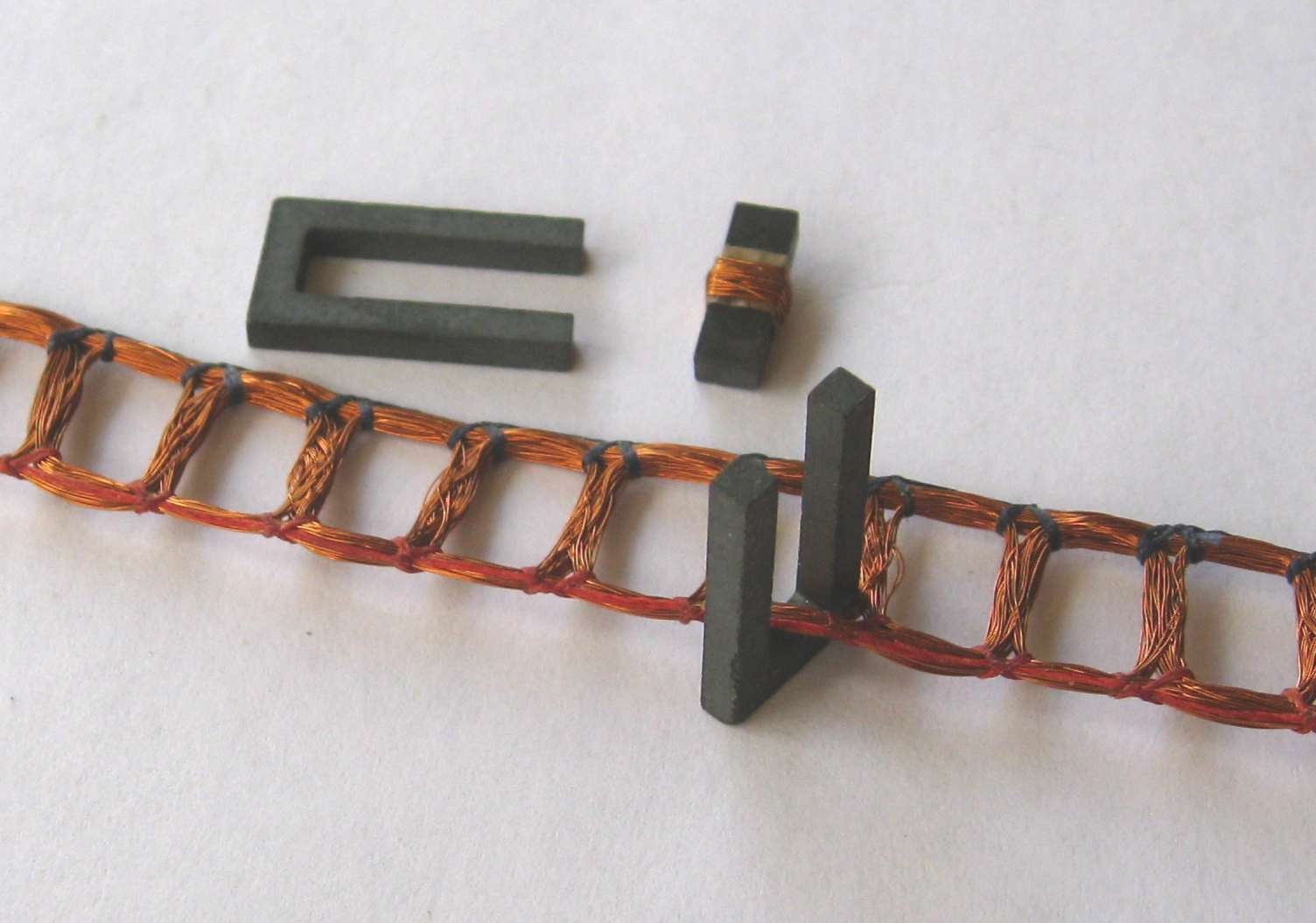 Core rope memory 128 wire 0,08 mm